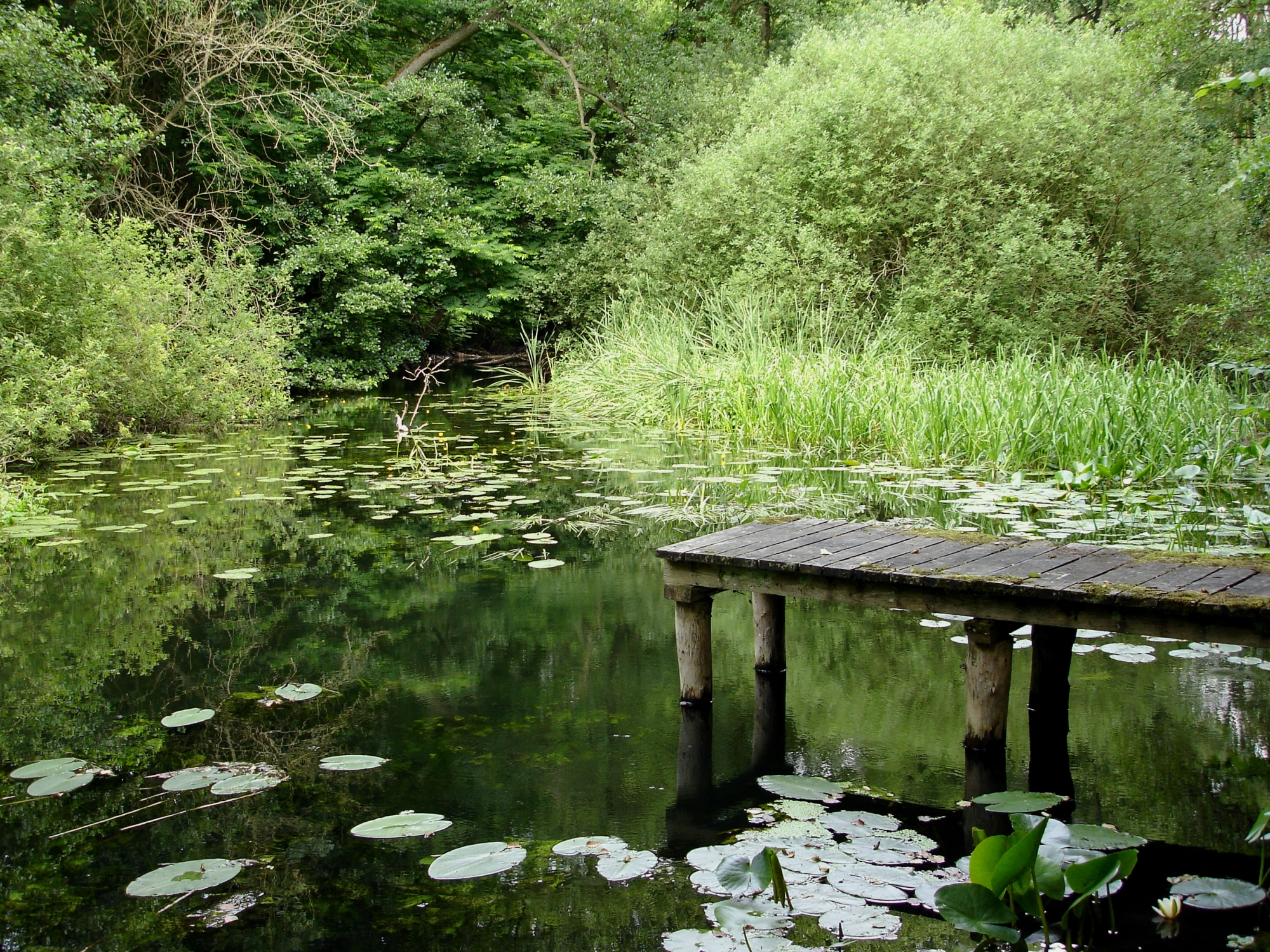 Nature protection area Nebel valley, between Serrahn and Kuchelmiß, Mecklenburg-Vorpommern, Germany